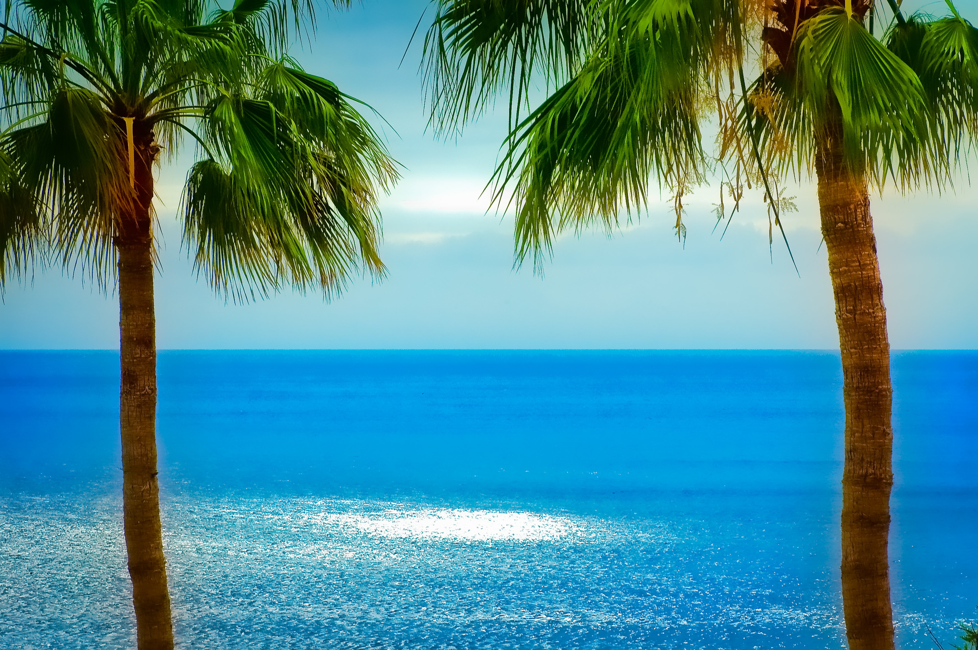 Wish I was there... Explored May 29th #458 Become a fan on facebook